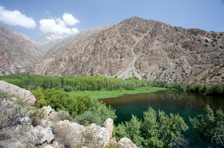 Iskandarkul lake